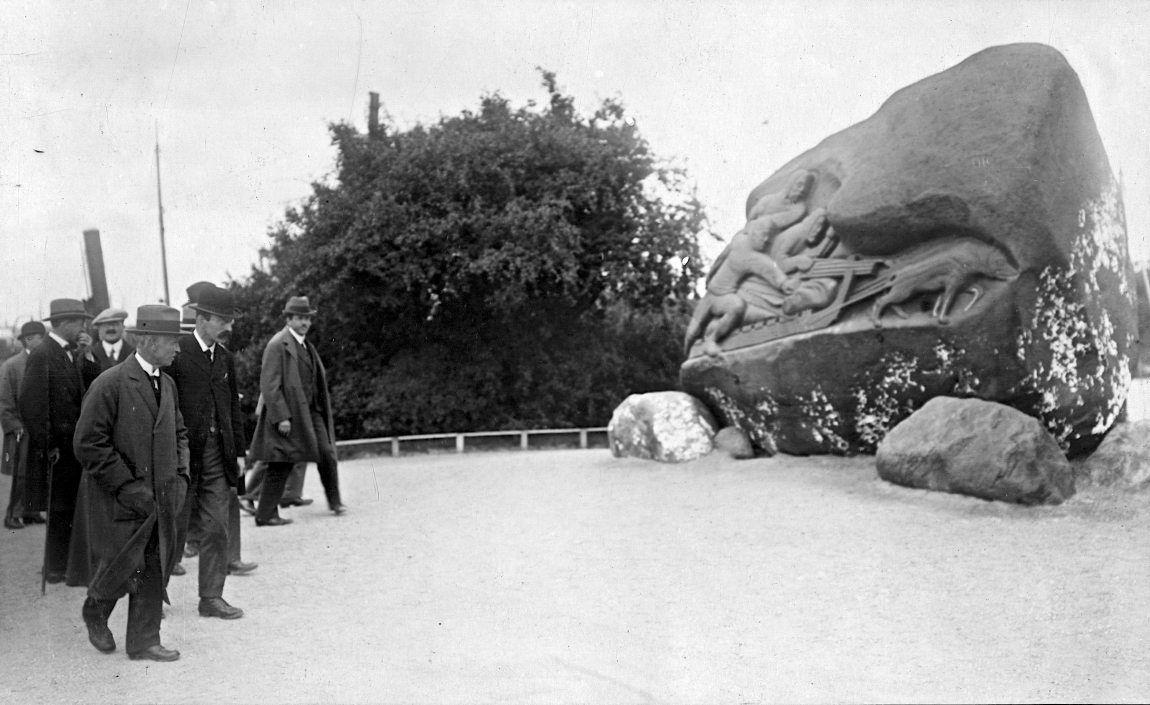 Denmark Expedition Memorial at Langelinie in Copenhagen, Denmark